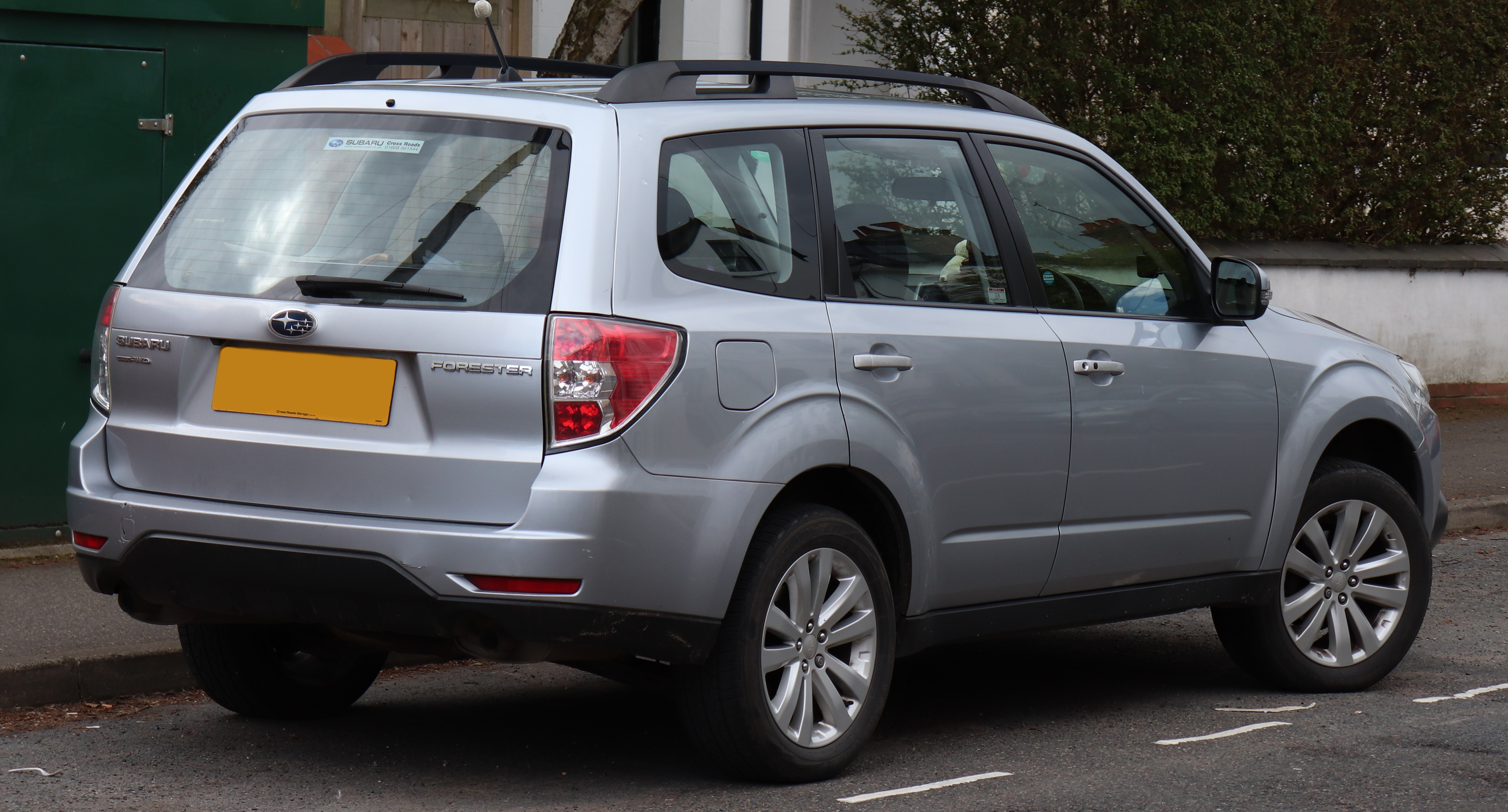 2012 Subaru Forester XS Automatic 2.0 Rear Taken in Leamington Spa